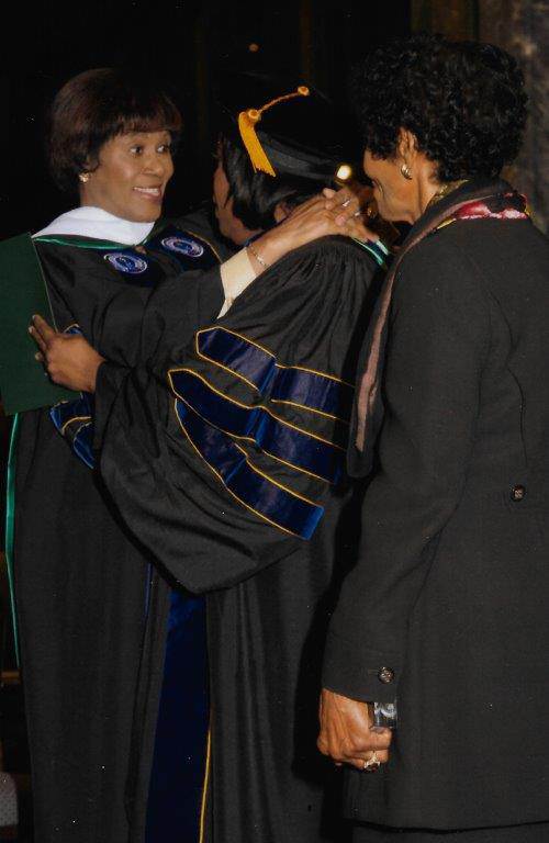 Graduation Photo